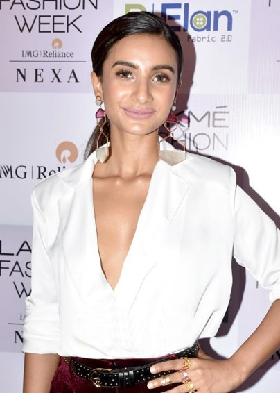 Patralekha snapped attending the Lakme Fashion Week 2018.